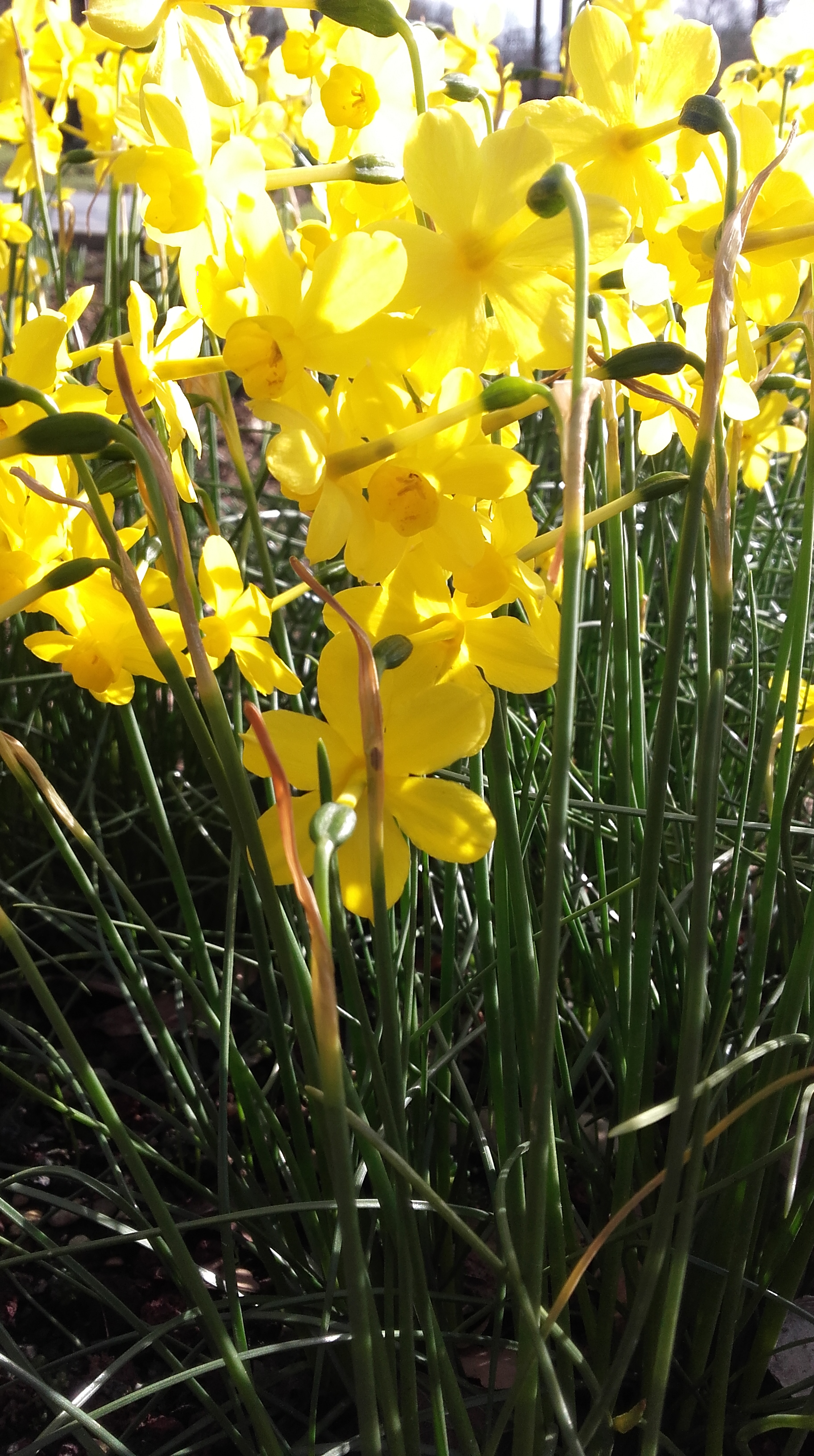 Narcissus jonquilla subsp. fernandesii (Pedro) Zonn., in the "Botanic school" part of Jardin des Plantes de Paris, France, Europe.